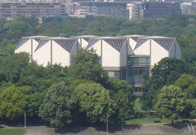 Museum of Contemporary Art in Belgrade, Serbia